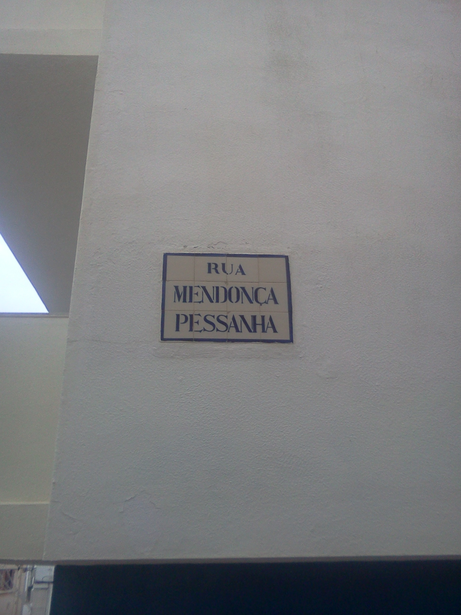 Street sign of Rua Mendonça Pessanha, in the city of Lagos, in southern Portugal.